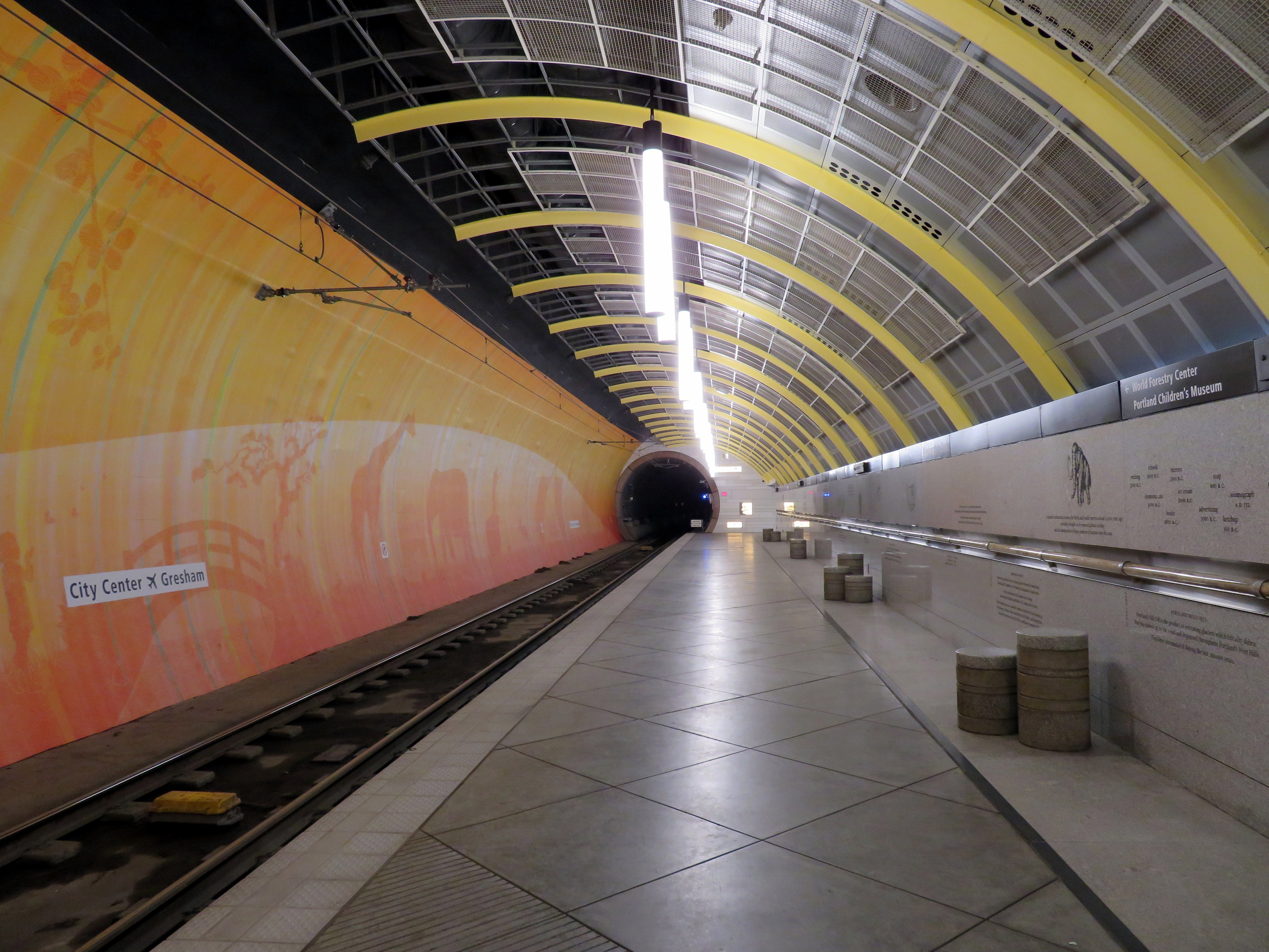 Eastbound platform at Washington Park station in February 2018